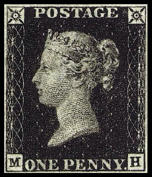 First world postal stamp ever issued : the Penny Black, Great Britain, 1840.